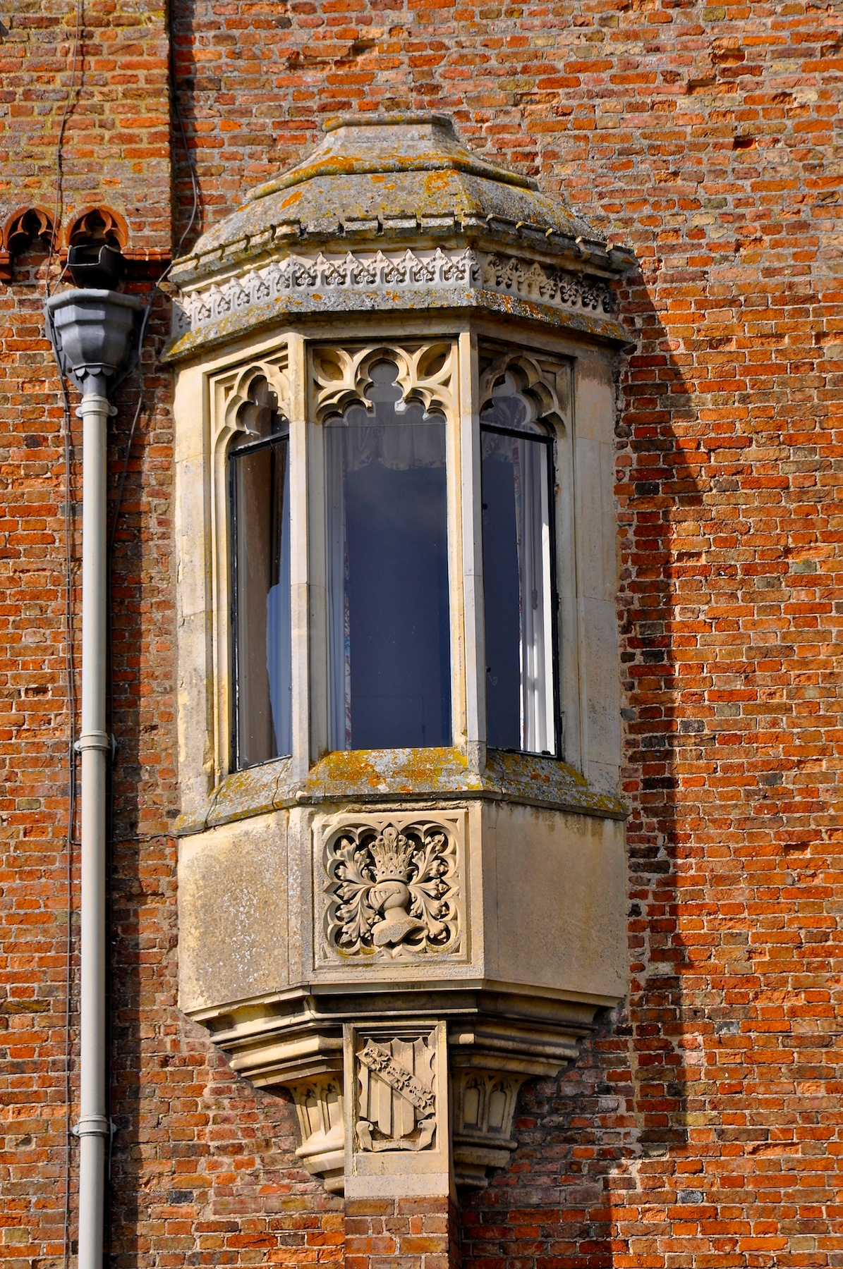 Oriel windon, Oxburgh Hall, Norfolk, with arms of Grandison. The present Paston-Bedingfeld baronet is a co-heir to the ancient barony of Grandison, which has been in abeyance since 1375.